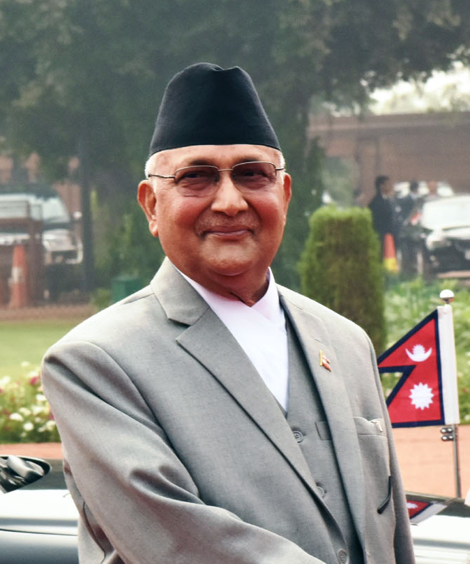 Khadga Prasad Sharma Oli